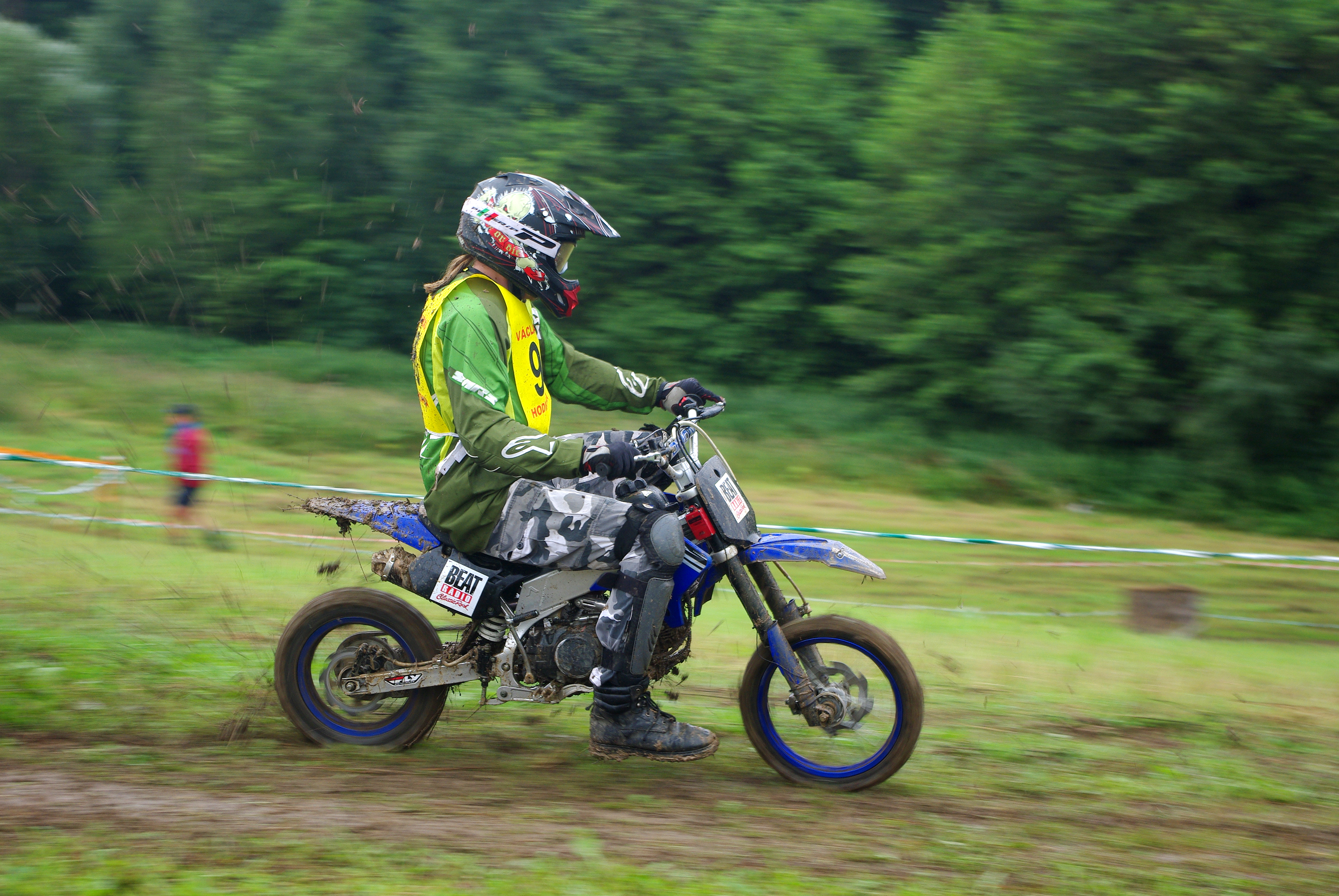 Pitbike on motocross race Václavická hodinovka 2010